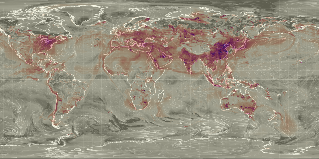 This map shows SO2 particles in the world